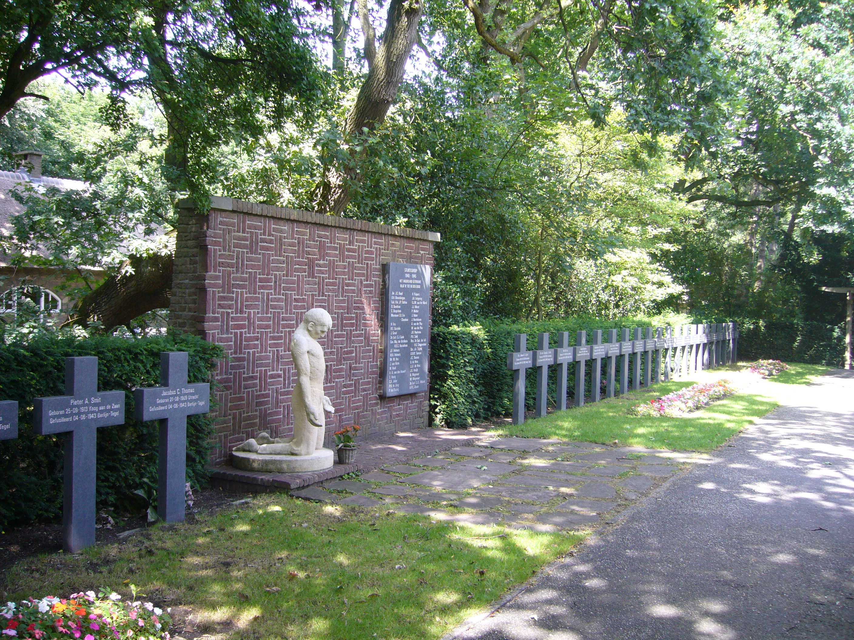 Stijkel monument by Marian Gobius at Westduin cemetery, with crosses